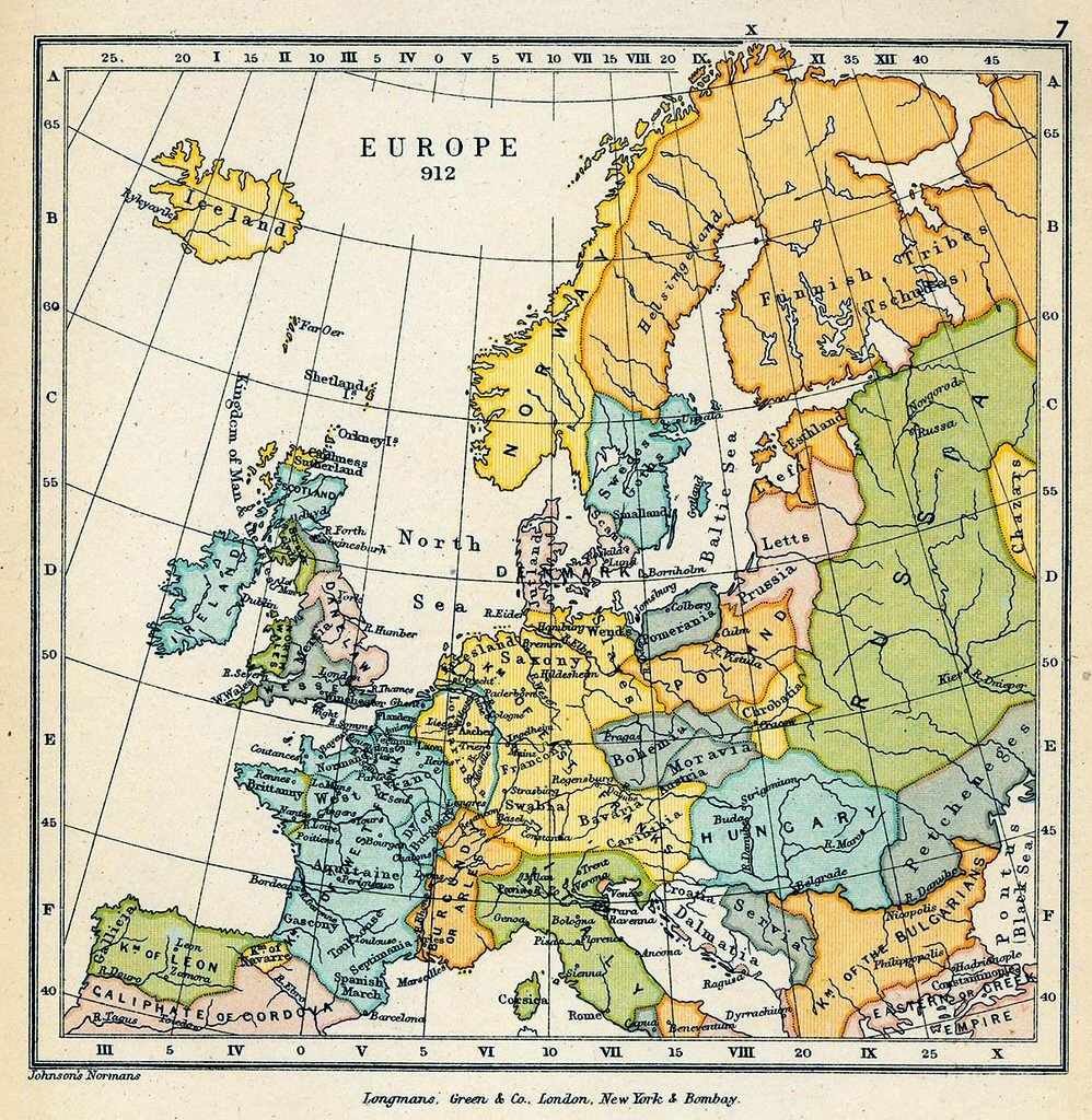 Map of Europe in 912 CE.